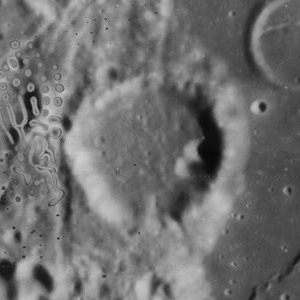 Liebig G crater), on the moon.